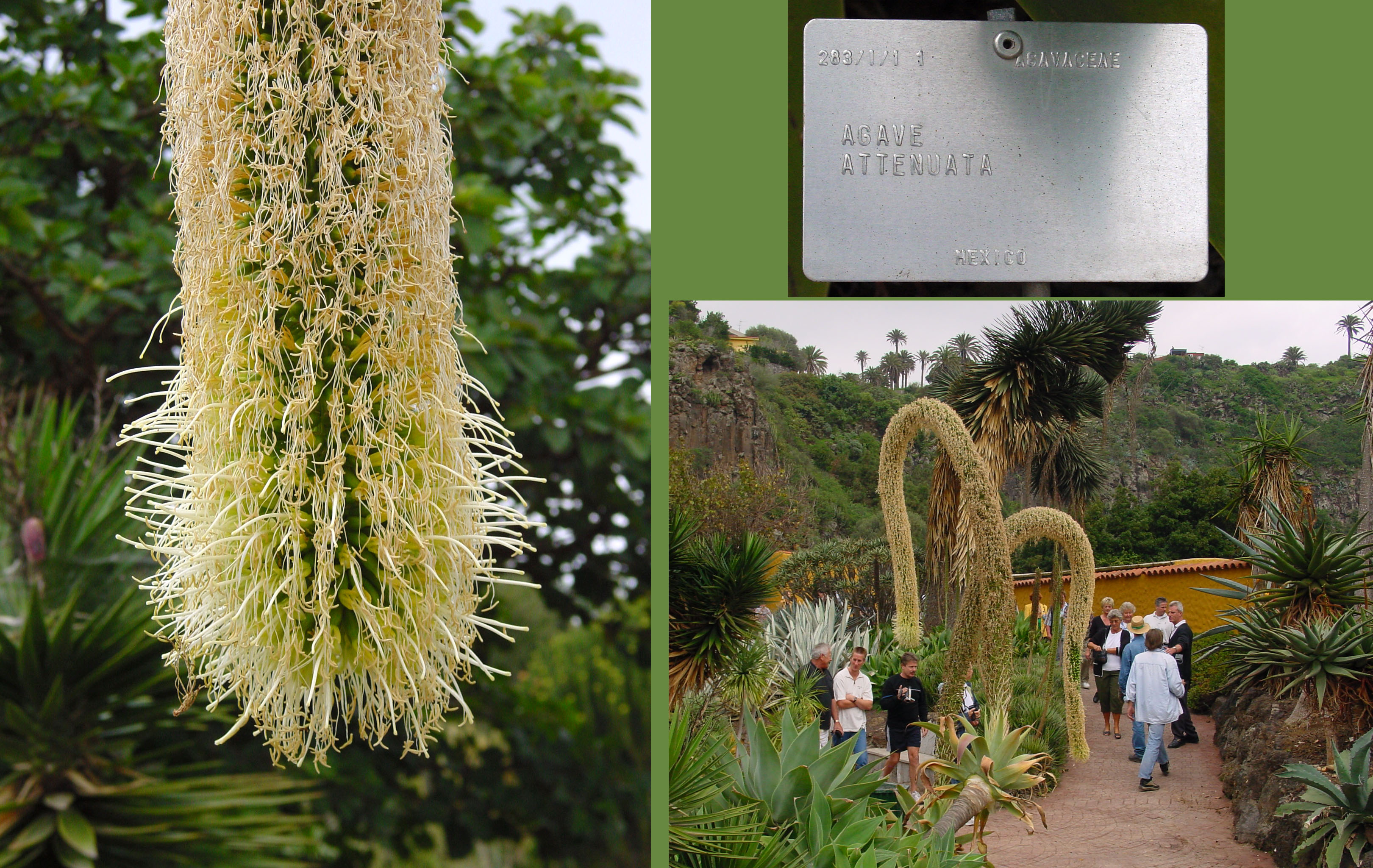 Agave attenuata. Photo taken in the Jardin Botanico Canario, Gran Canaria. .